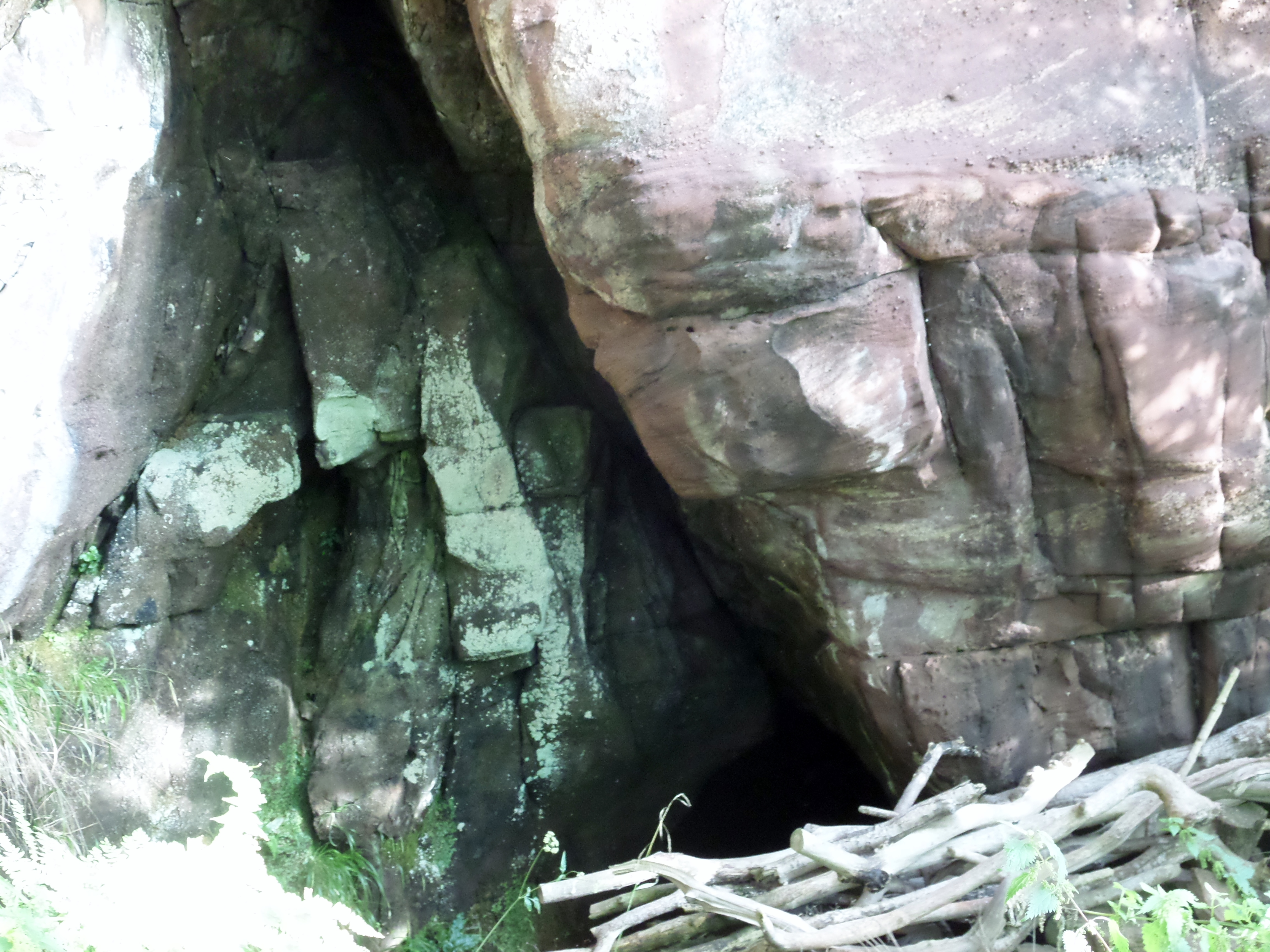 The Holy Cave's entrance from the north, Hawking Craig Wood, Hunterston, North Ayrshire. Once used by St Mungo of Glasgow as a place of quiet contemplation.